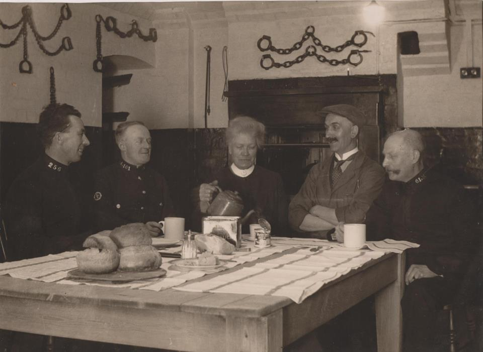 This photograph is from about 1918-1920 and is of a matron in the kitchen at the central lock up in Steelhouse Lane police station, Birmingham, England.